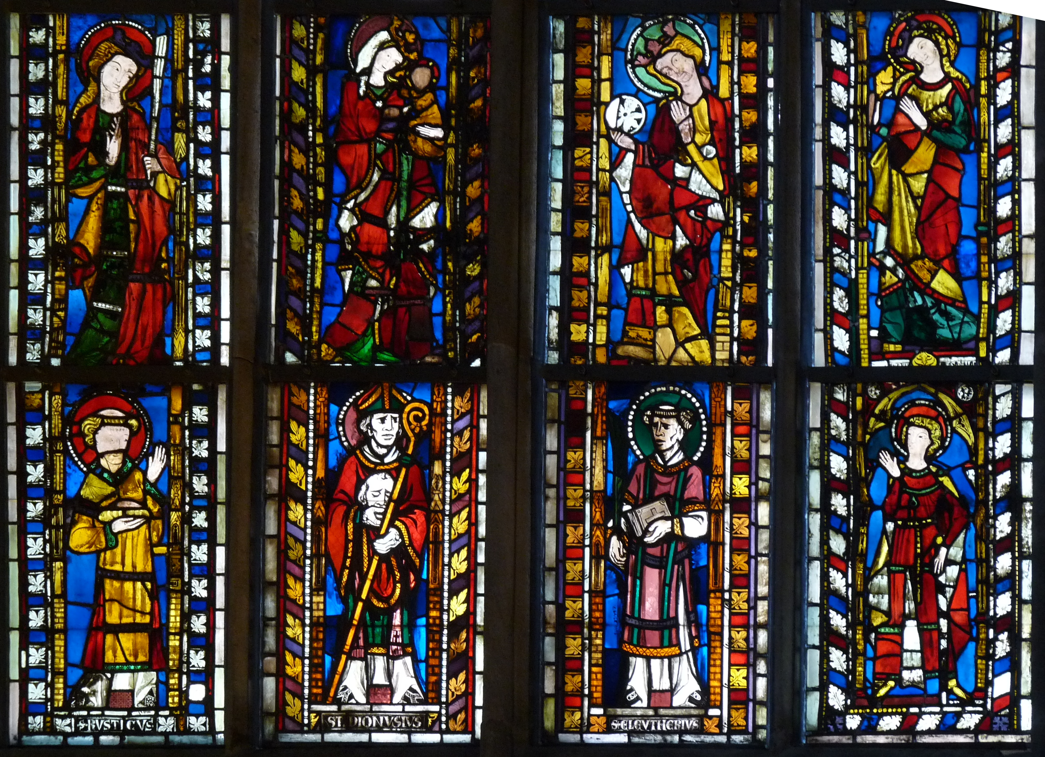 Esslingen am Neckar, Stadtkirche St. Dionys (Saint Dionysius’ Church), detail from stained-glass window at the southeast side of the choir, 1300 ca.